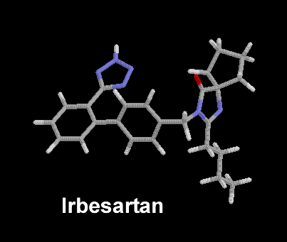 Created by Osni Moreira Filho on March 18, 2006.